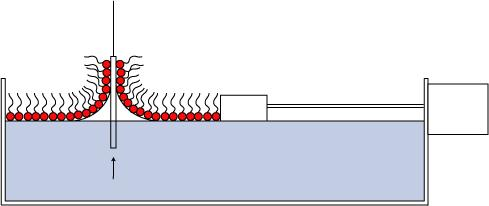 A diagram of a Langmuir–Blodgett film being compressed